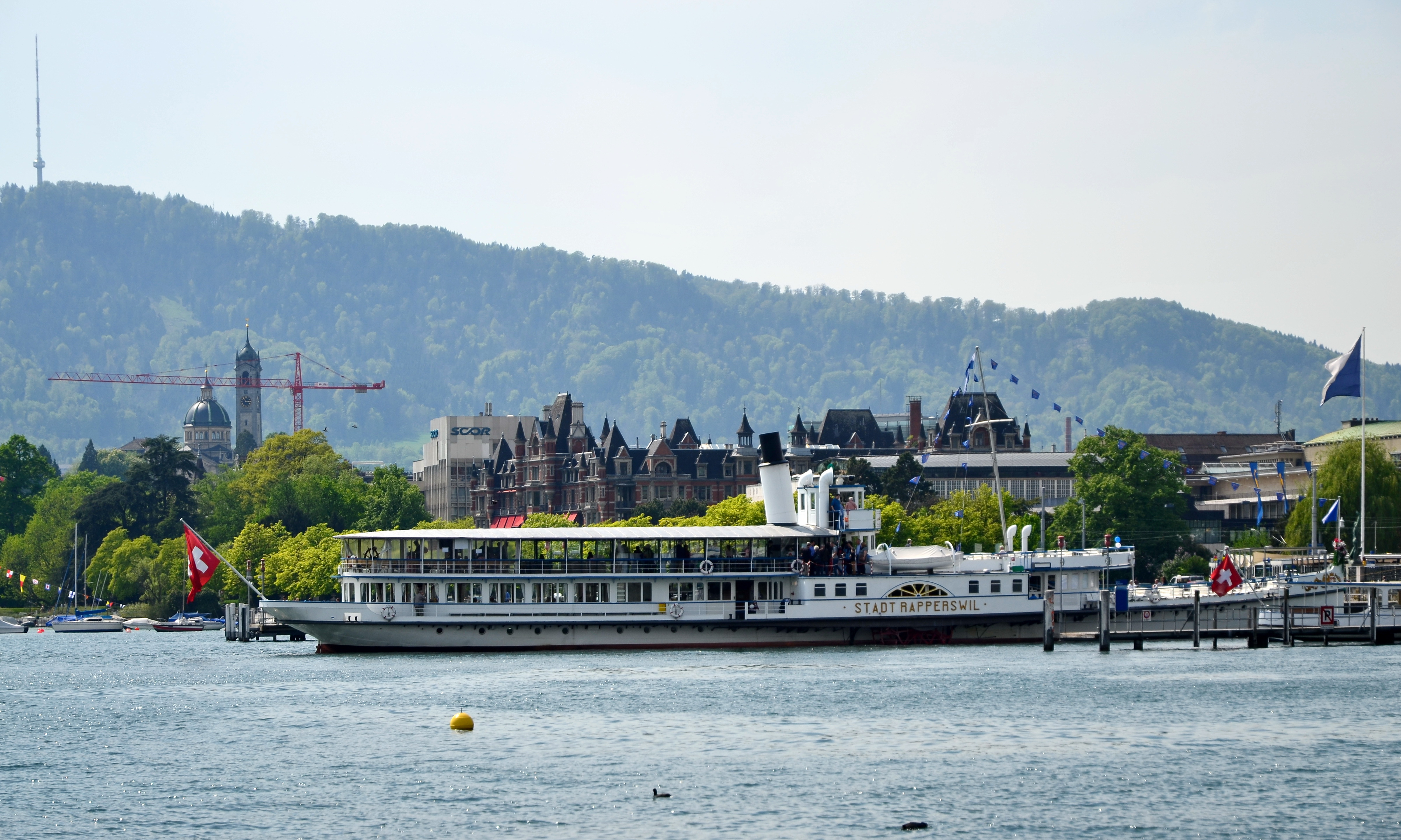 Centennial presentation of Zürichsee-Schifffahrtsgesellschaft (ZSG) paddle steamship Stadt Rapperswil at Bürkliplatz in Zürich (Switzerland)